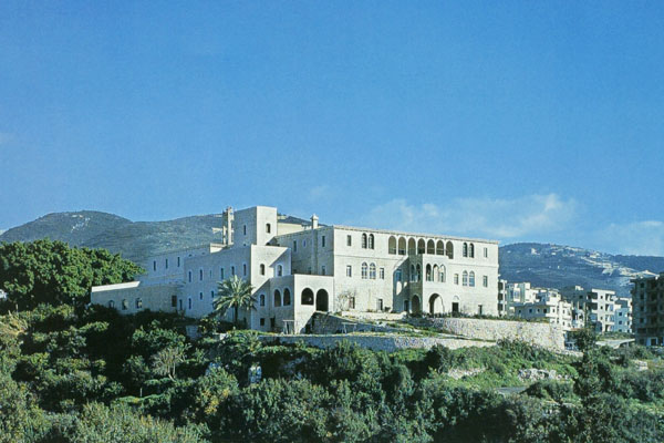 Dayr al-Banat, endowed to Shaykh Mansur al-Dahdah by Amir Yusuf Shihab in 1770.